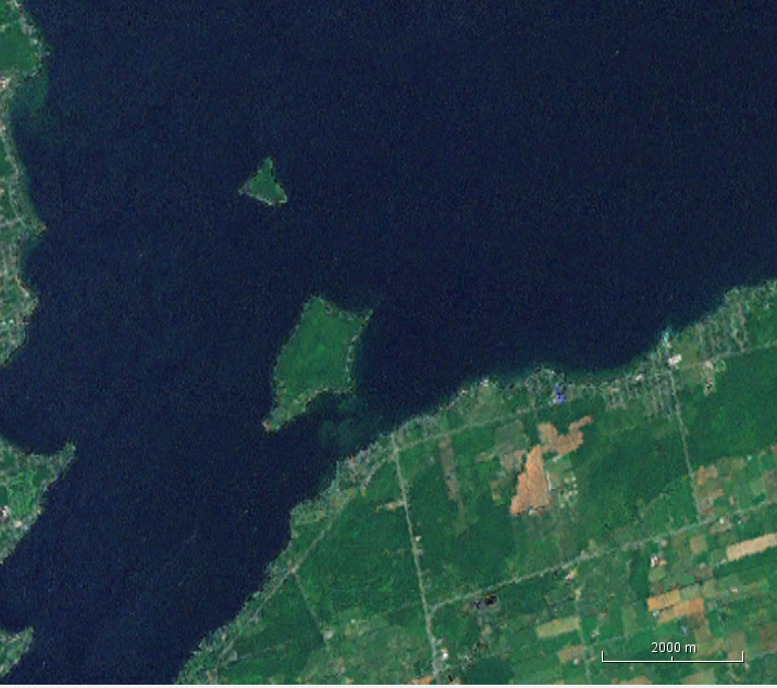 Snake Island (larger island at the bottom) and Fox Island (smaller one to the north) in Lake Simcoe.